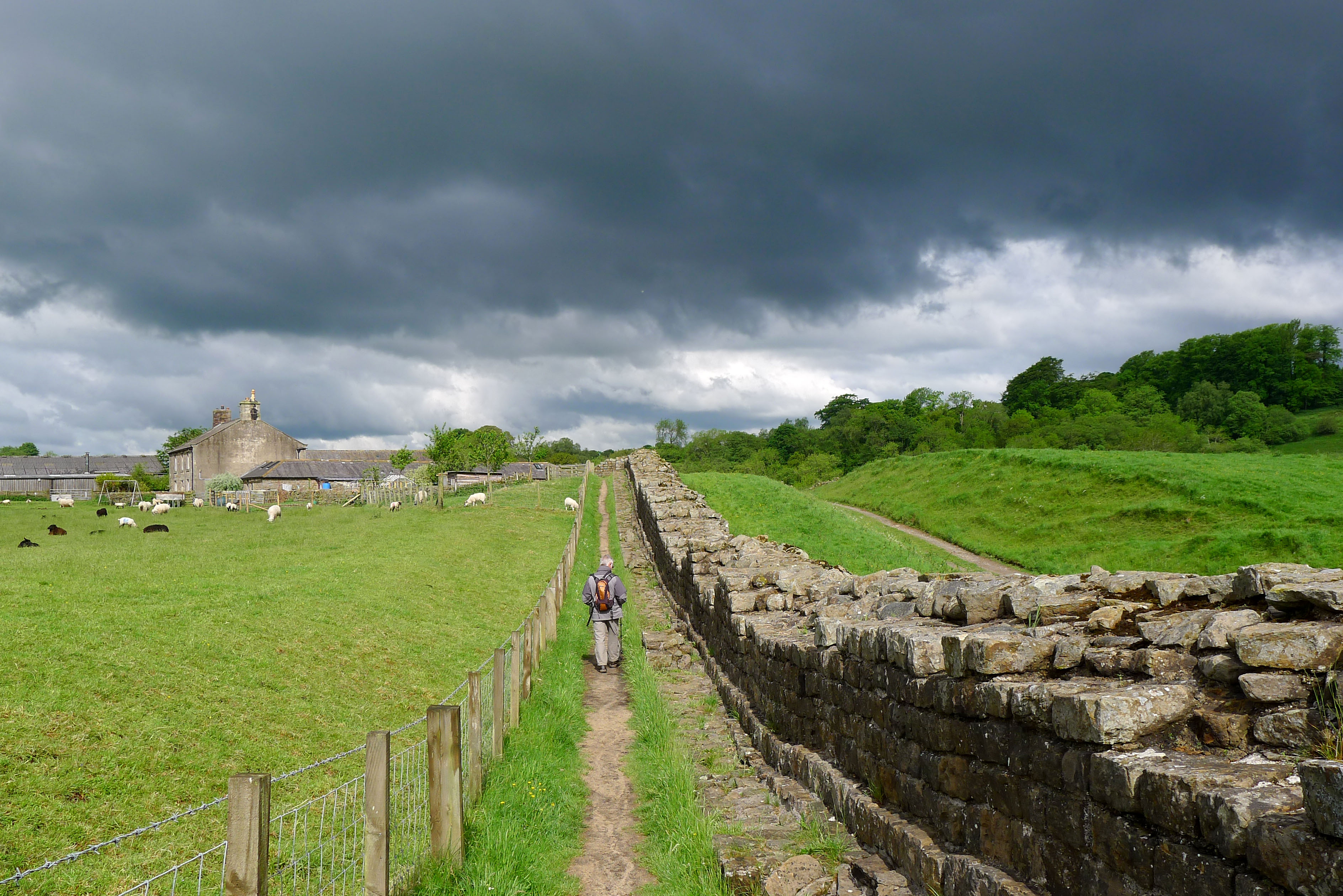 Hadrian's Wall